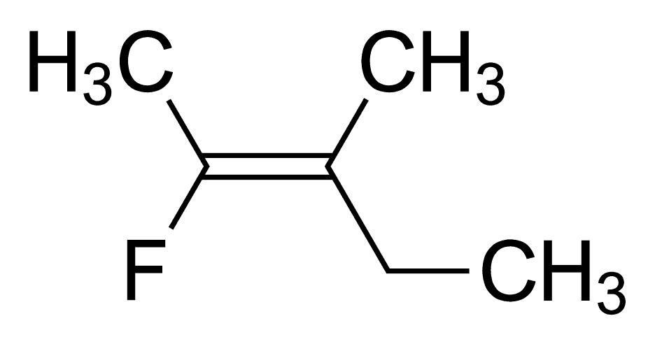 trans-2-fluoro-3-methyl-2-pentene/(Z)-2-fluoro-3-methyl-2-pentene